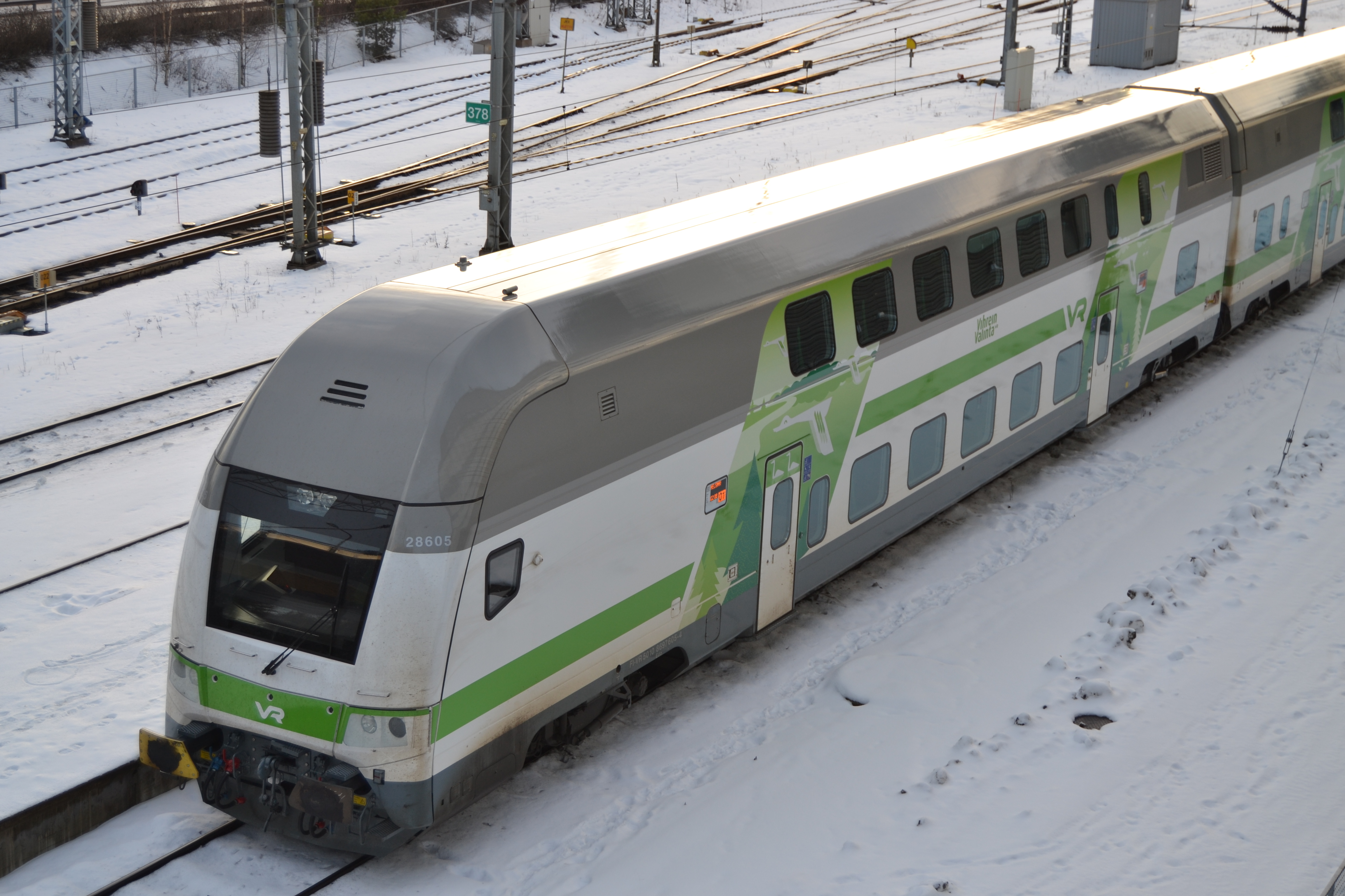 Edo driving railway coach at Jyväskylän railway station, Finland